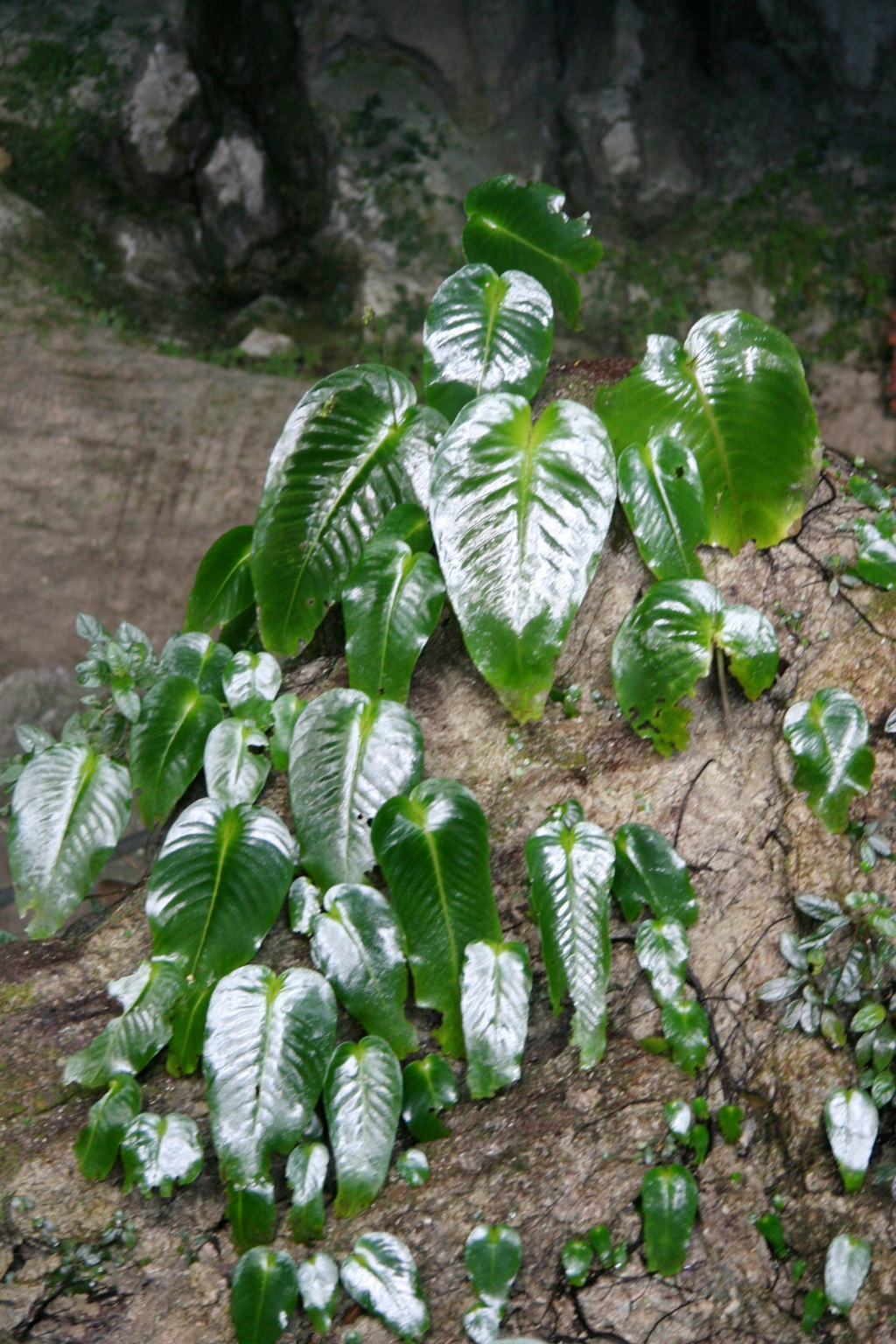 One-leaf Plant (Monophyllaea glauca). Each leaf is a separate plant. The whole plant consists of only one leaf.